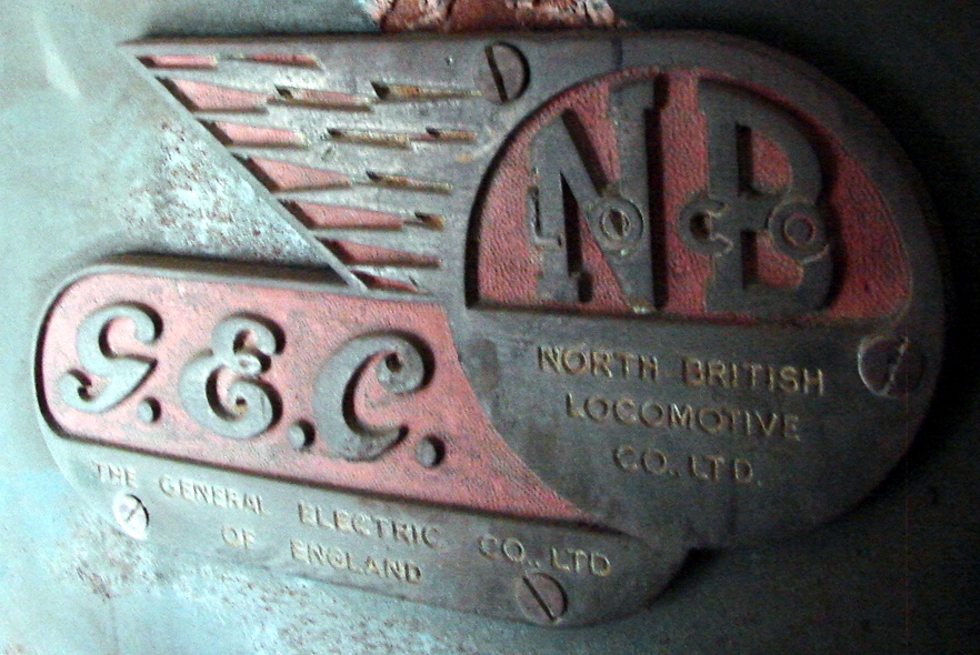 SAR Class 4E E258 builder's plate Builder's Number: NBL 26898 Location: Bellville, Cape Town